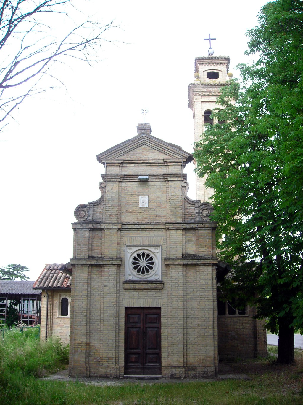 Church in Bastardo, Giano dell'Umbria, Perugia, Umbria, Italy